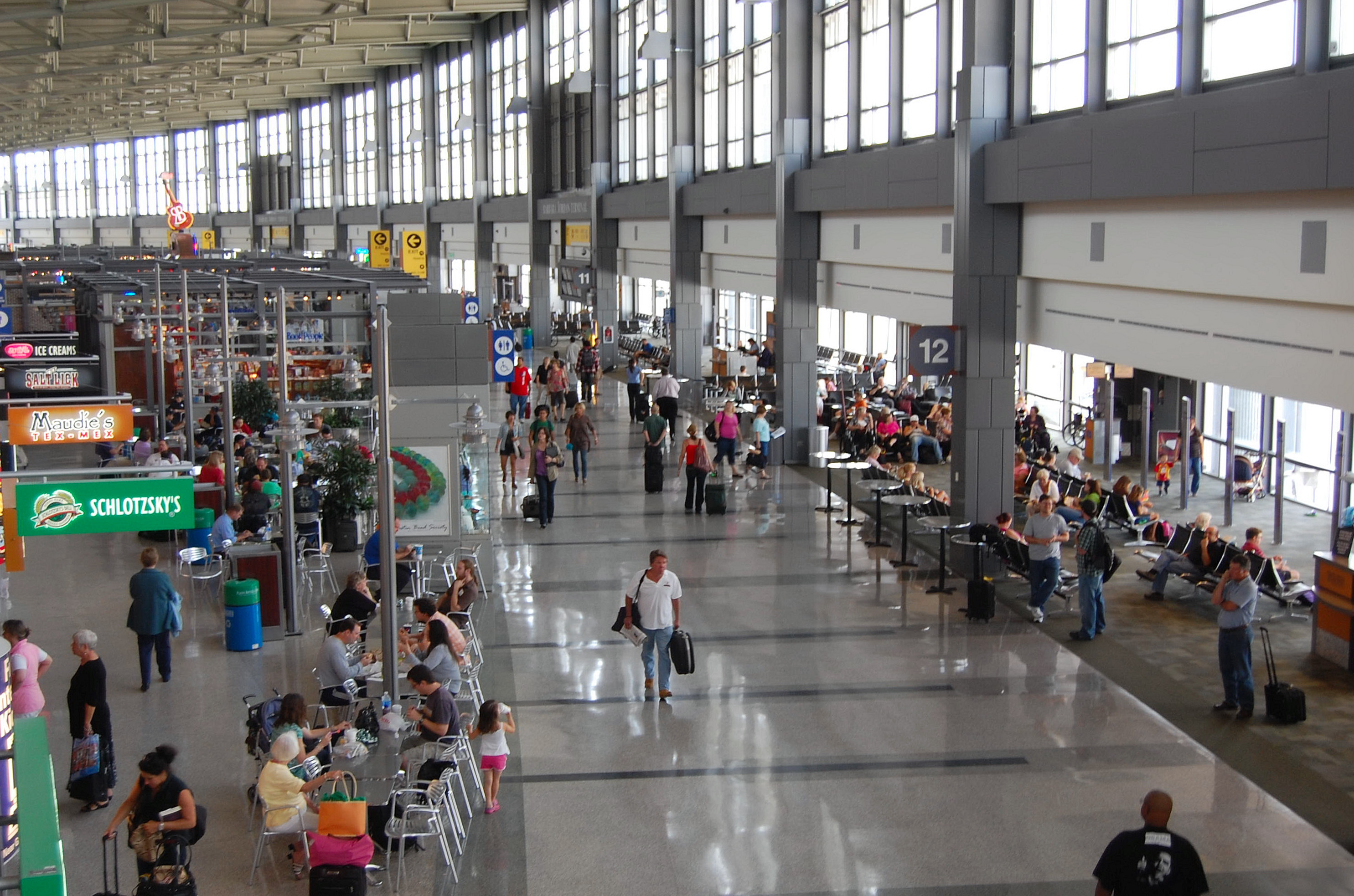 Passenger concourse at Austin Bergstrom International Airport as seen from the mezzanine level